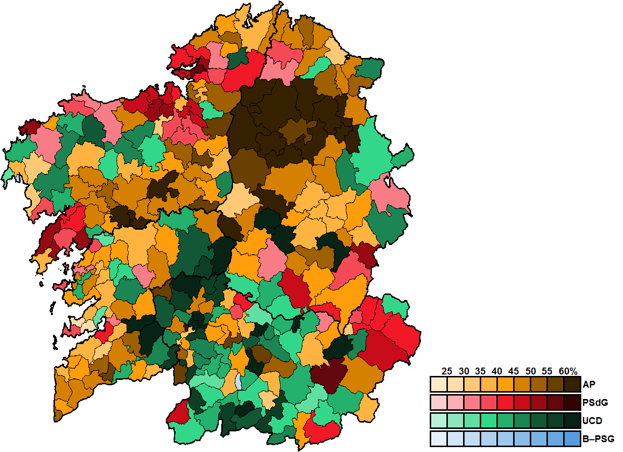 Most-voted party in Galicia municipalities, showing vote share obtained, in the Spanish general election, 1982.